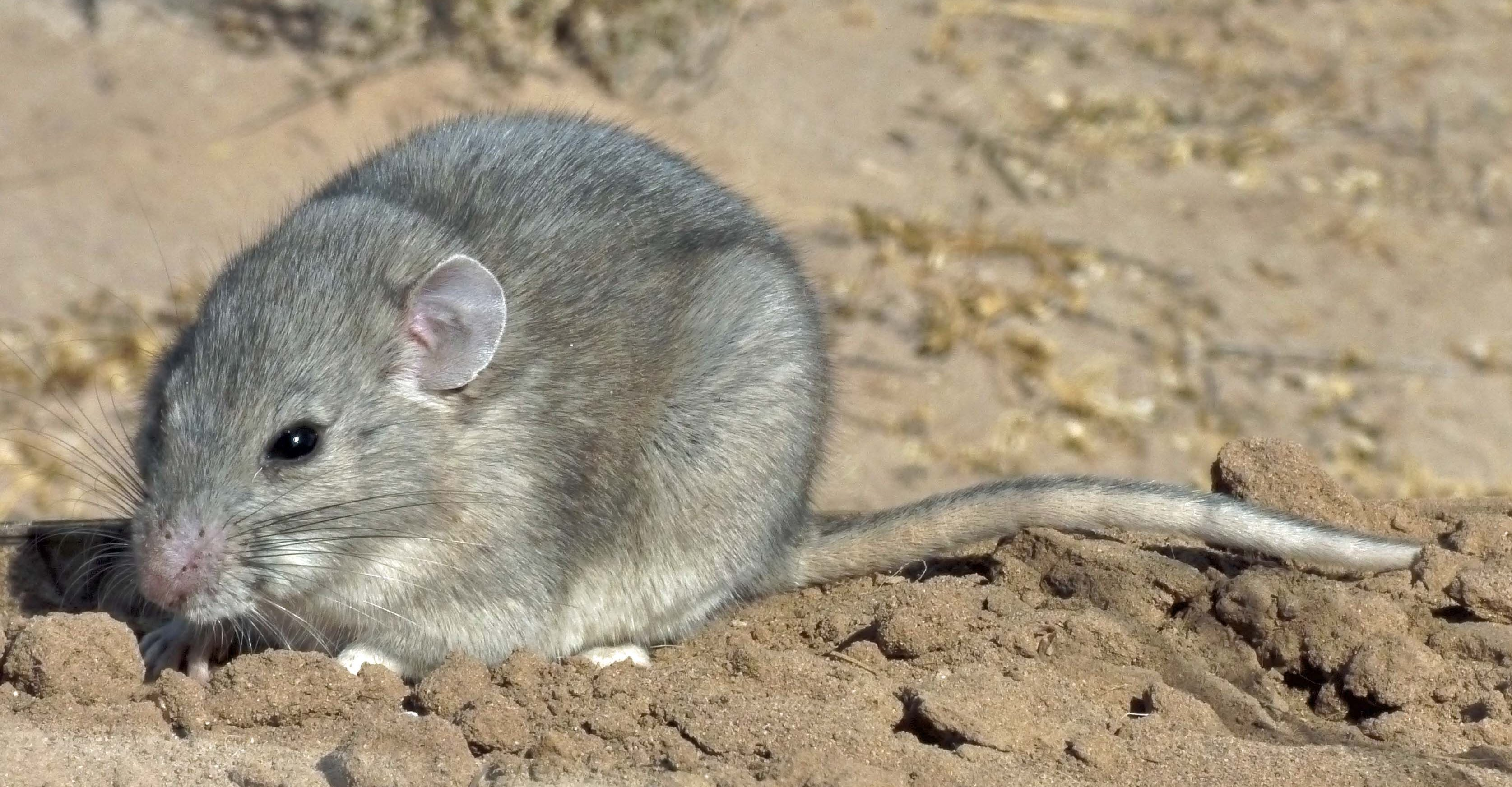 Crop of file in filename